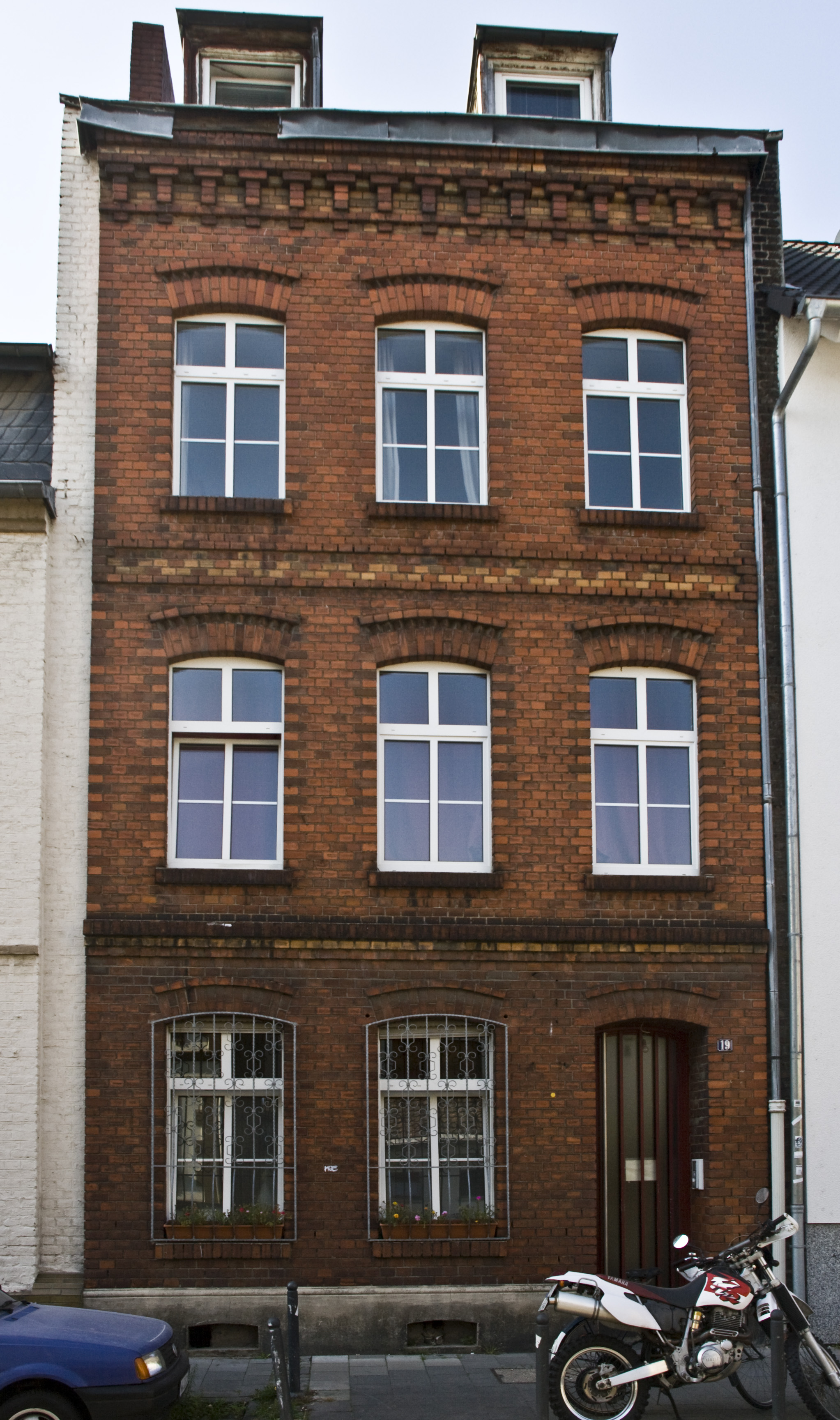 This is a photograph of an architectural monument.